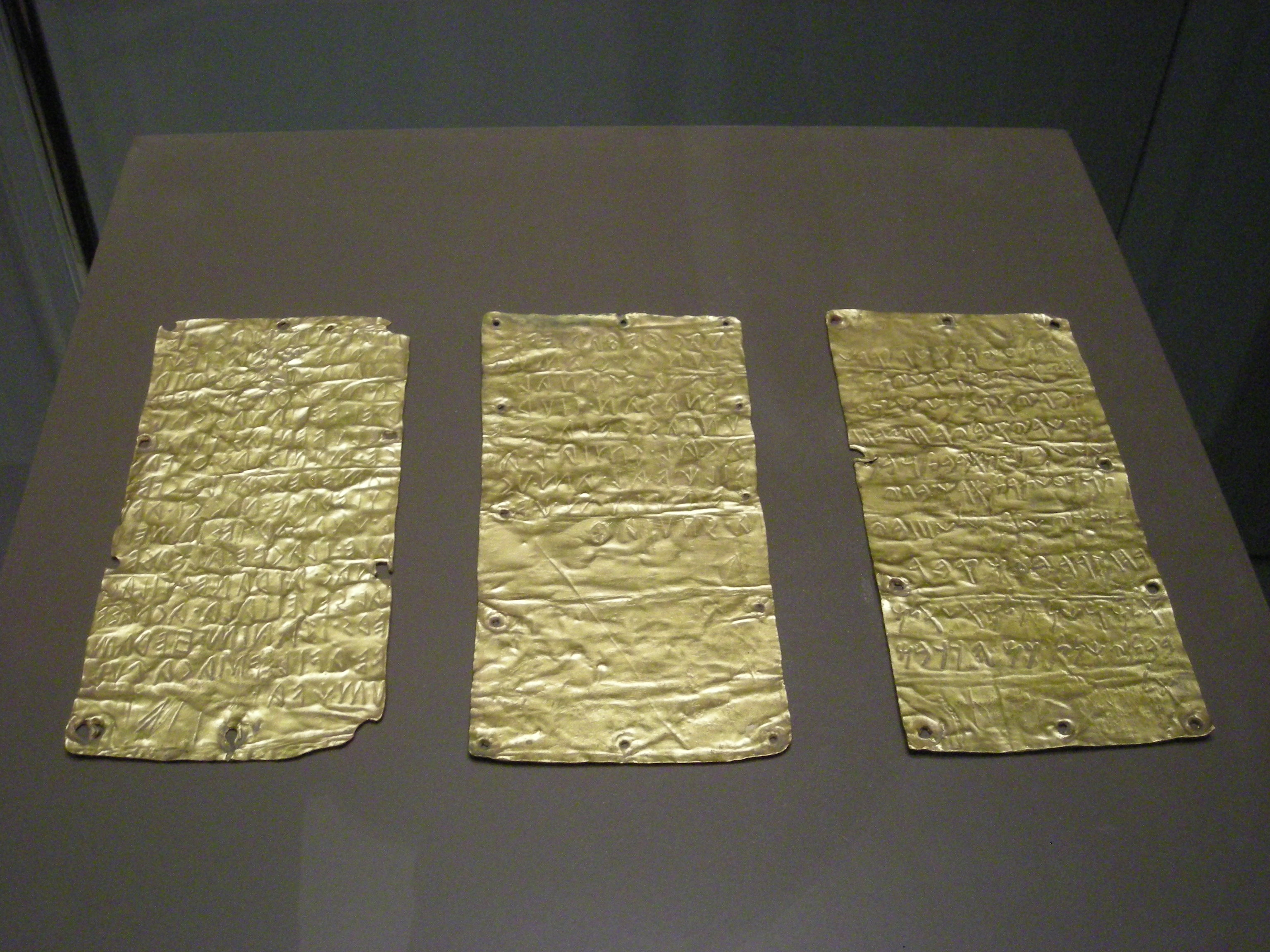 "Pyrgi tablets". Laminated sheets of gold with a treatise both in Etruscan and Phoenician languages. From Etruscan Museum in Rome (Museo di Villa Giulia). Photos taken in Caixa Forum (Madrid).